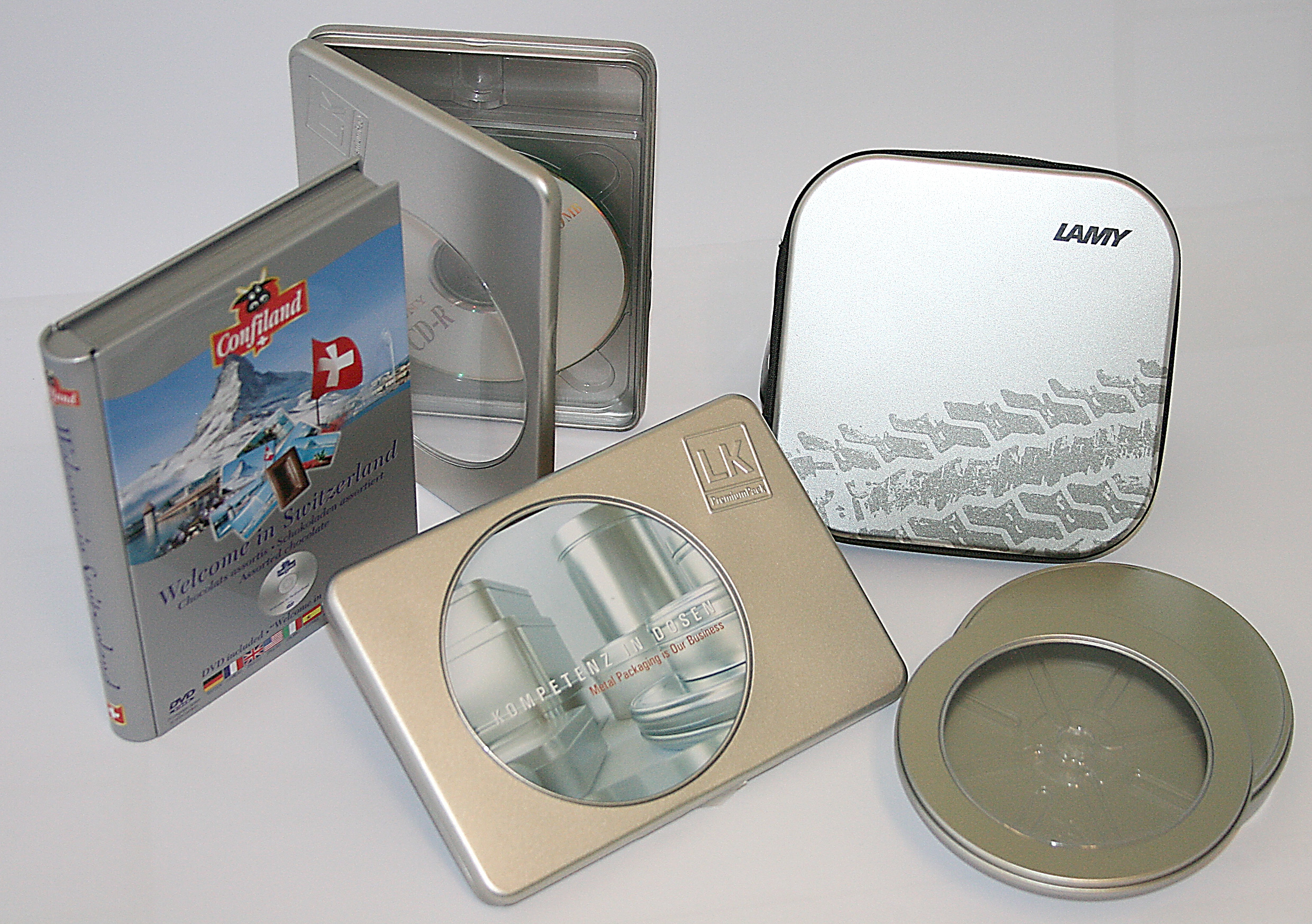 DC-DVD-Tin-Packaging